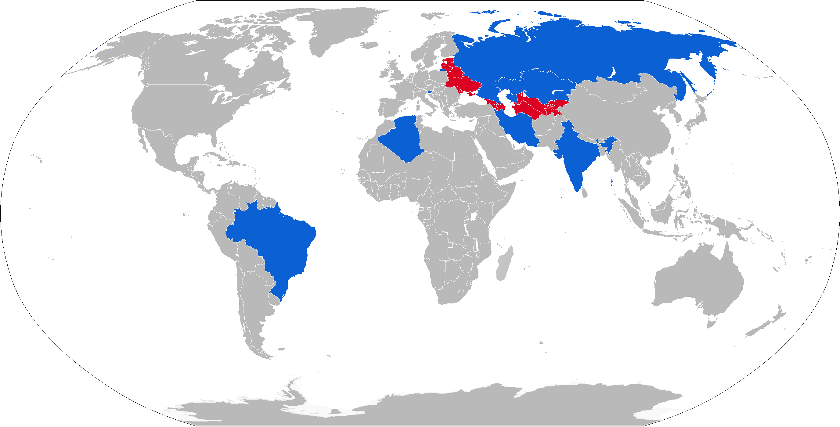 Map with 9M120 operators in blue with former operators in red